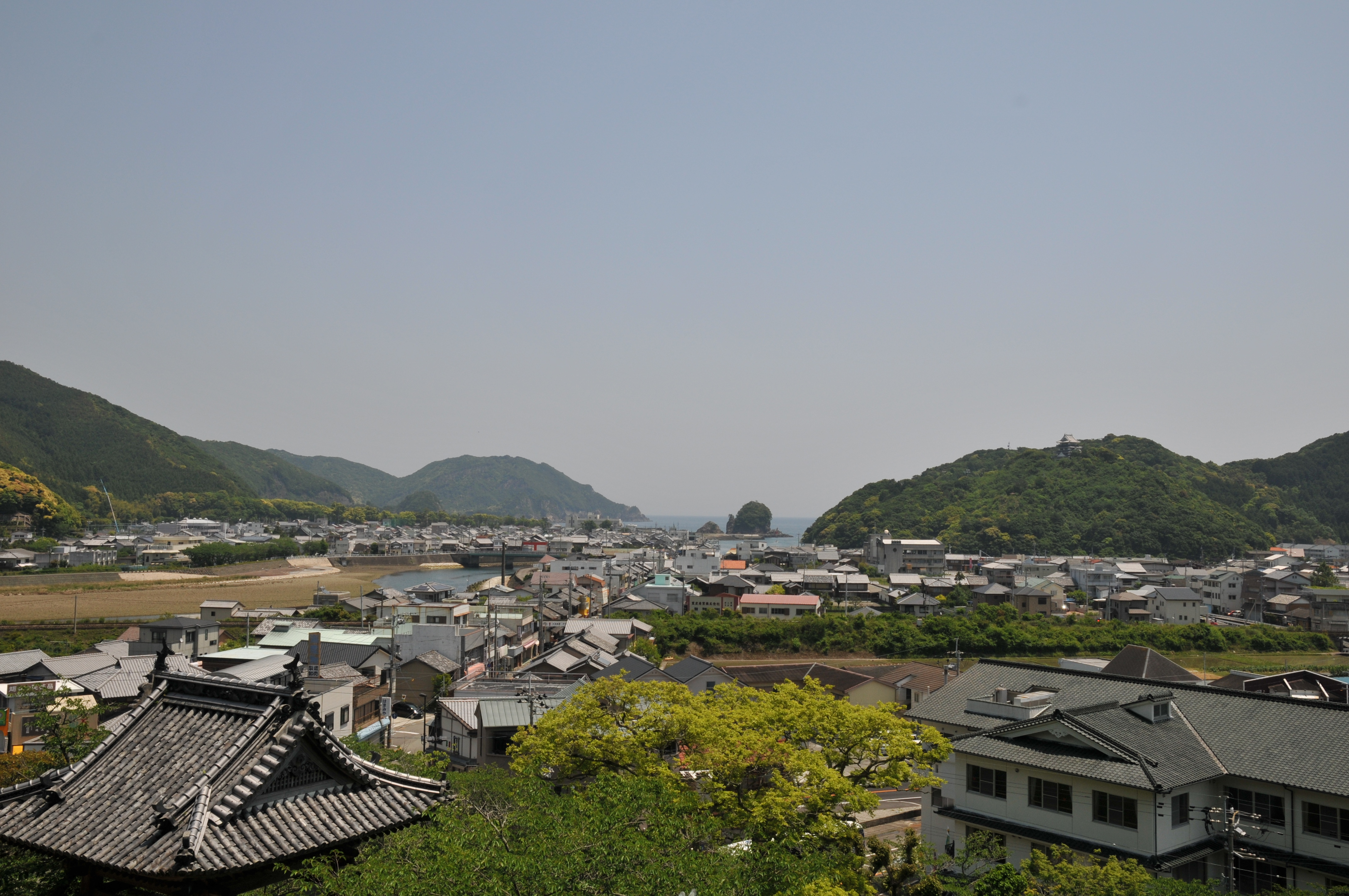 Hiwasa town view from Yakuō-ji